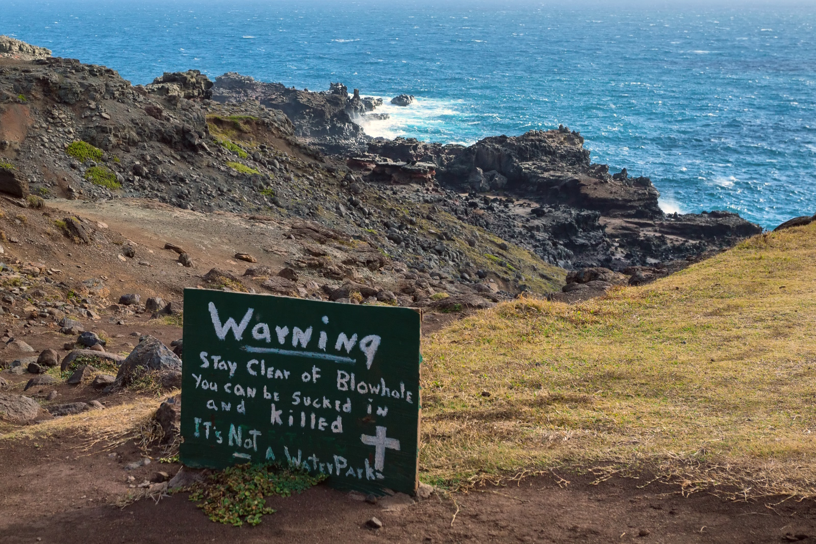 A warning sign on the trail to the Nakalele blowhole warns people of the dangers of this natural feature.